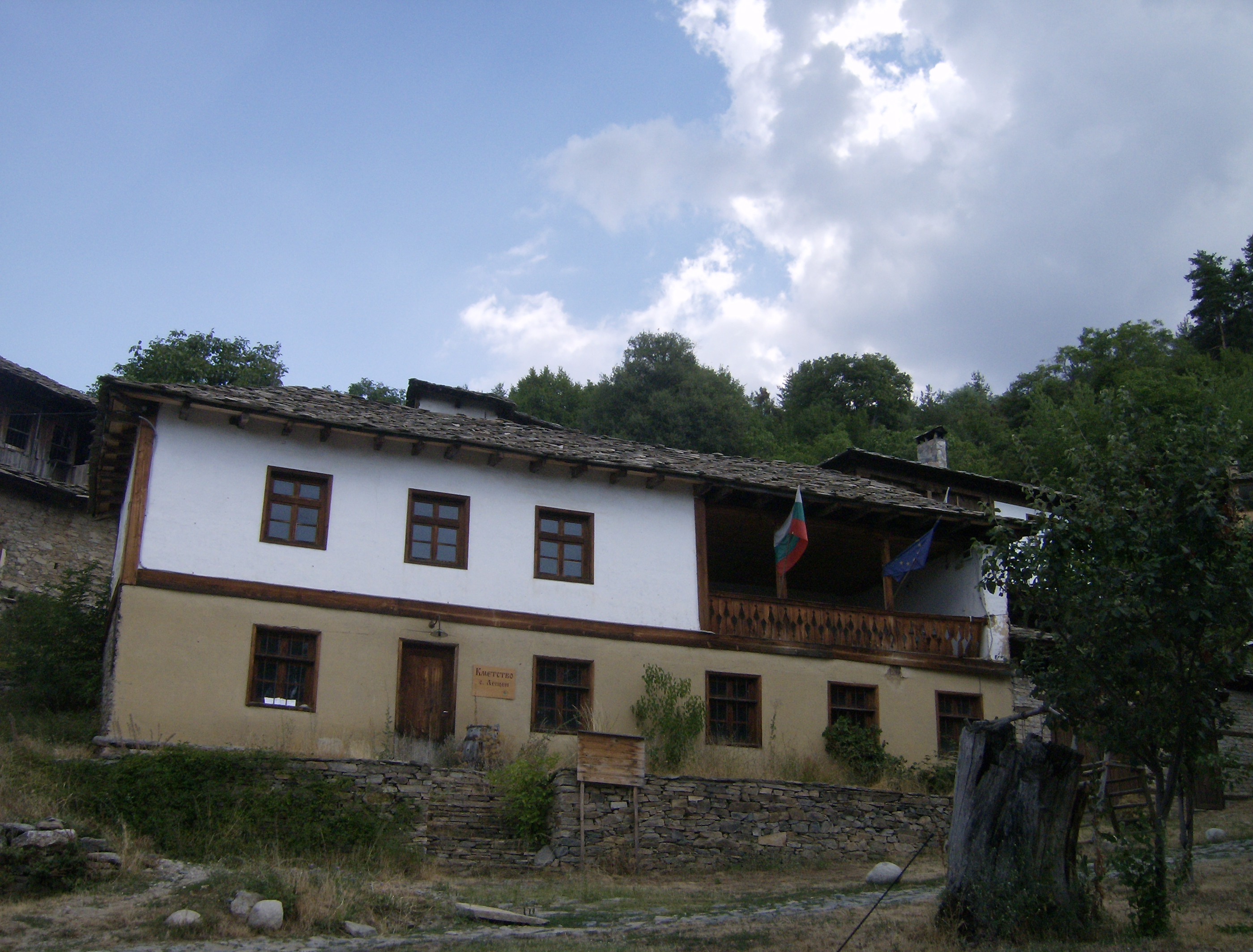 View of Leshten